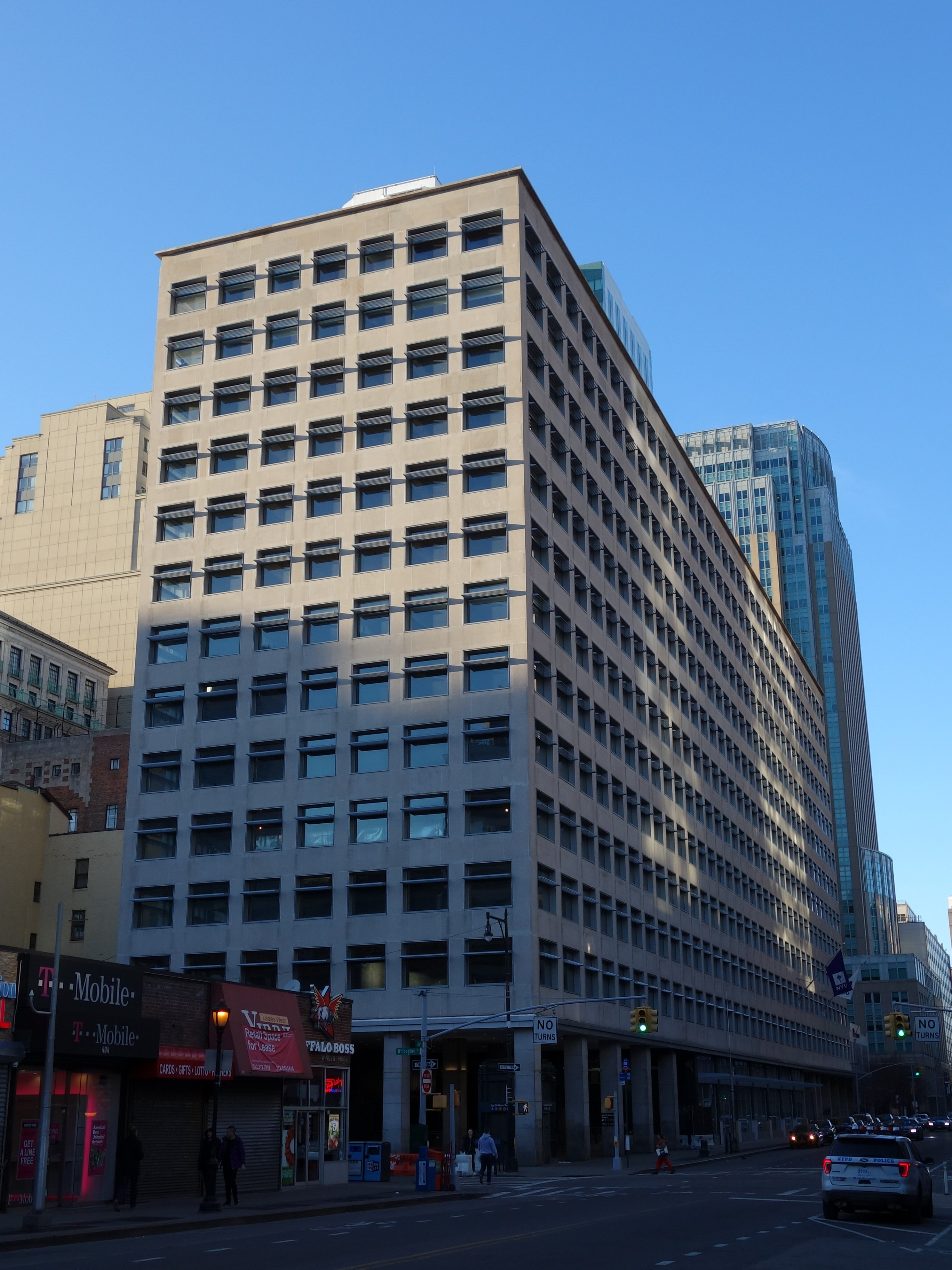 Looking north at 370 Street, the former Transportation Building at Jay Street and Willoughby Street in Downtown Brooklyn. The building is now used by New York University as part of its Brooklyn campus.